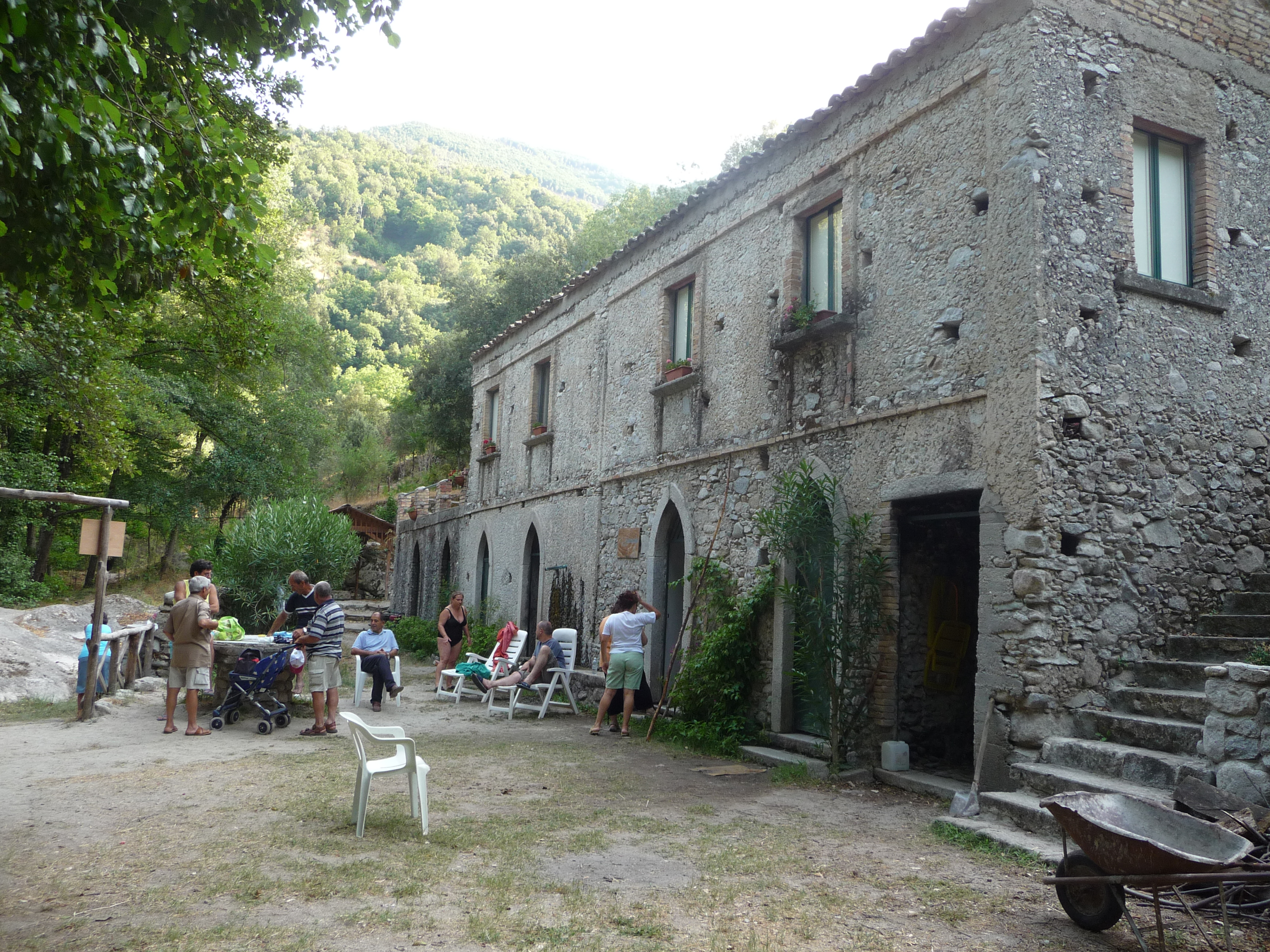 Bagni di Guida